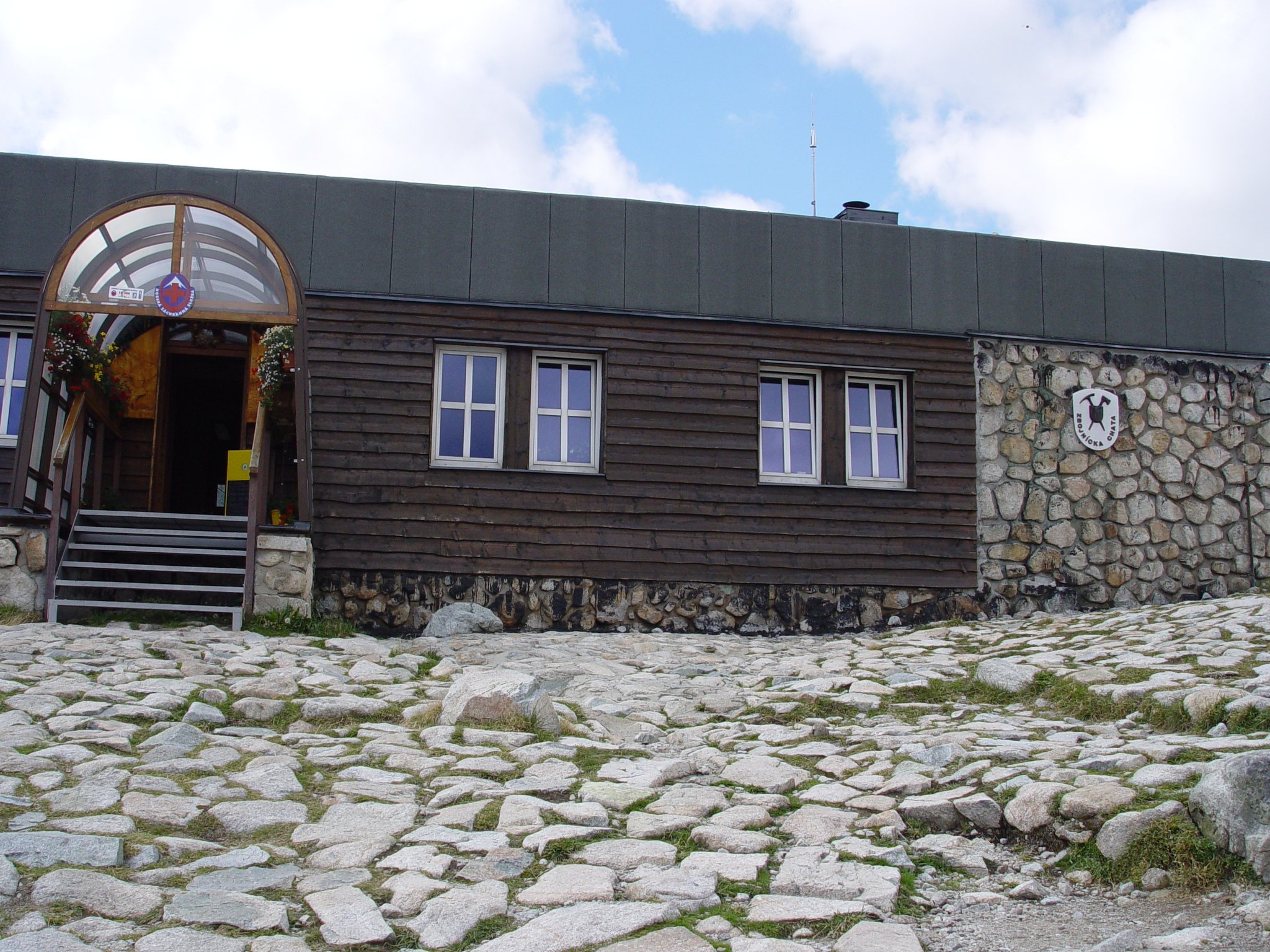 Magas-Tátra_Hosszú-tavi,_Rabló_mh.3.JPG